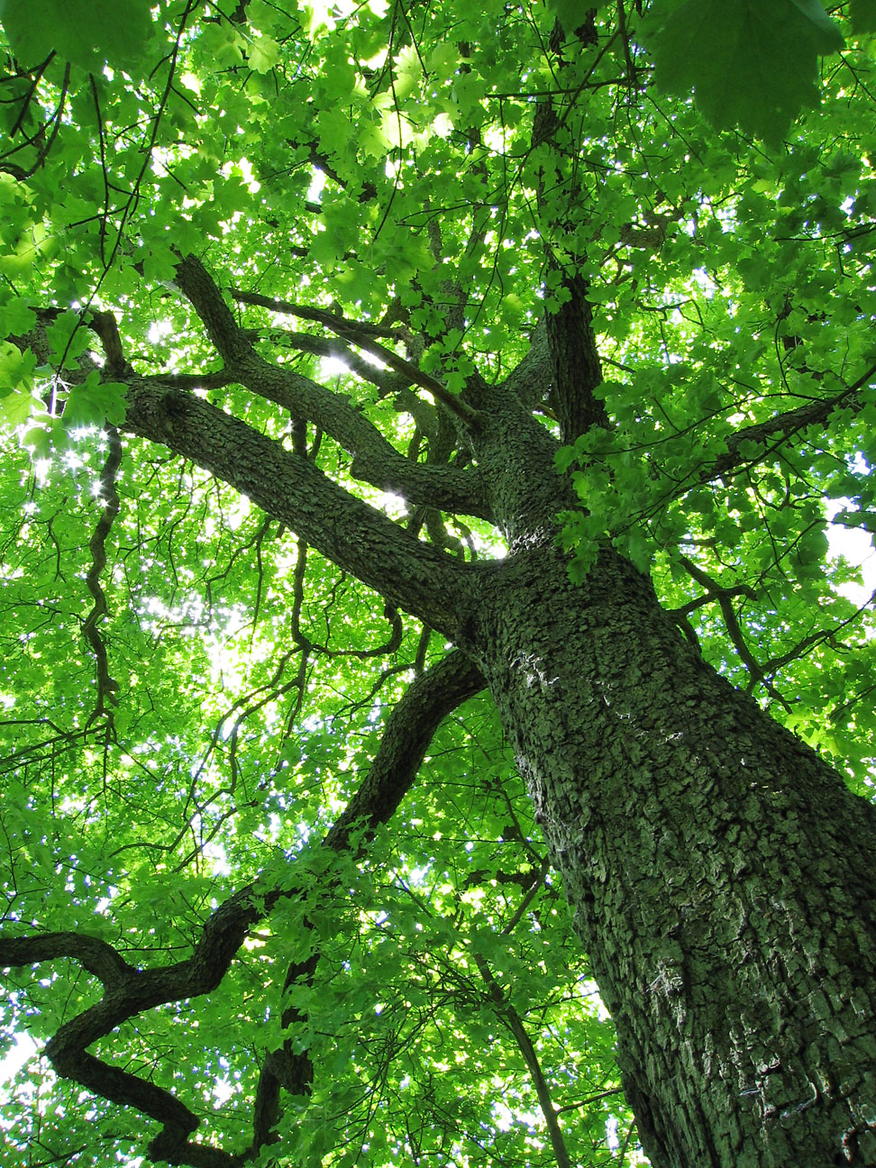 Trunk and canopy of Wild Service Tree, Sorbus torminalis, photographed in Gamlingay Wood, Cambridgeshire, England.